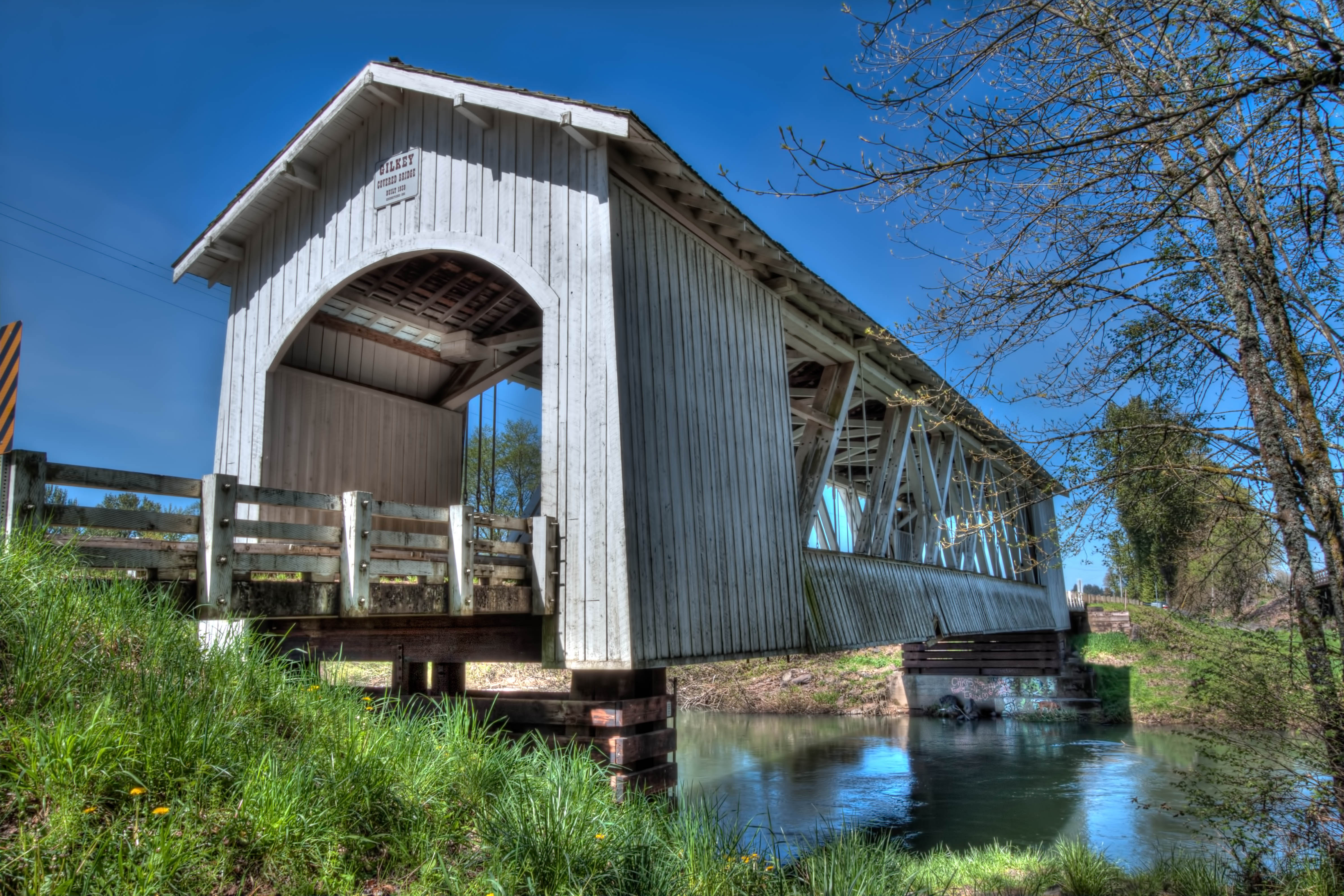 Just a fun HDR version of this bridge.